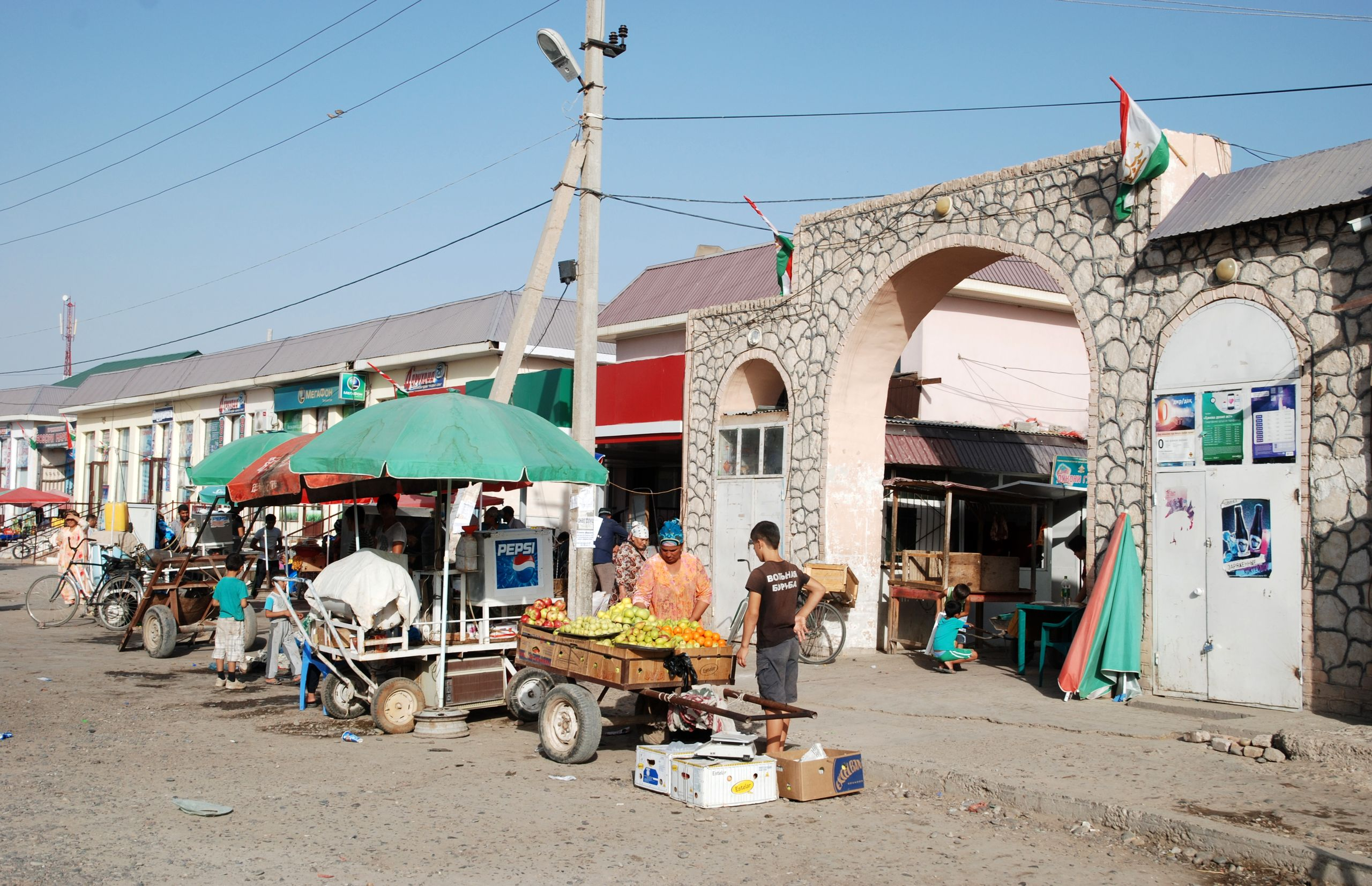 Shahritus (Shaartuz), market